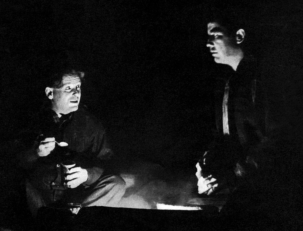 Photograph of Wallace Ford (left) and Broderick Crawford in the original Broadway production of Of Mice and Men, which cited the production for excellence in the theatre Caption reads as follows: Because last November we saw Of Mice and Men, as John Steinbeck had adapted it himself and as George Kaufman had staged it. Because we were galvanized by the stark reality, the truth, and the inevitable forward lunge of what we were seeing. Because Wallace Ford played George simply, out of a deep understanding. Because Broderick Crawford played Lennie, the huge, pathetic moron—the part they said nobody could play—with such quiet skill. Because we went home knowing that we had seen a great story, superbly told.